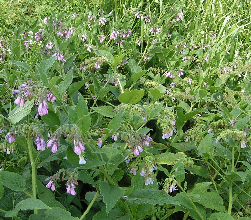 Symphytum x uplandicum